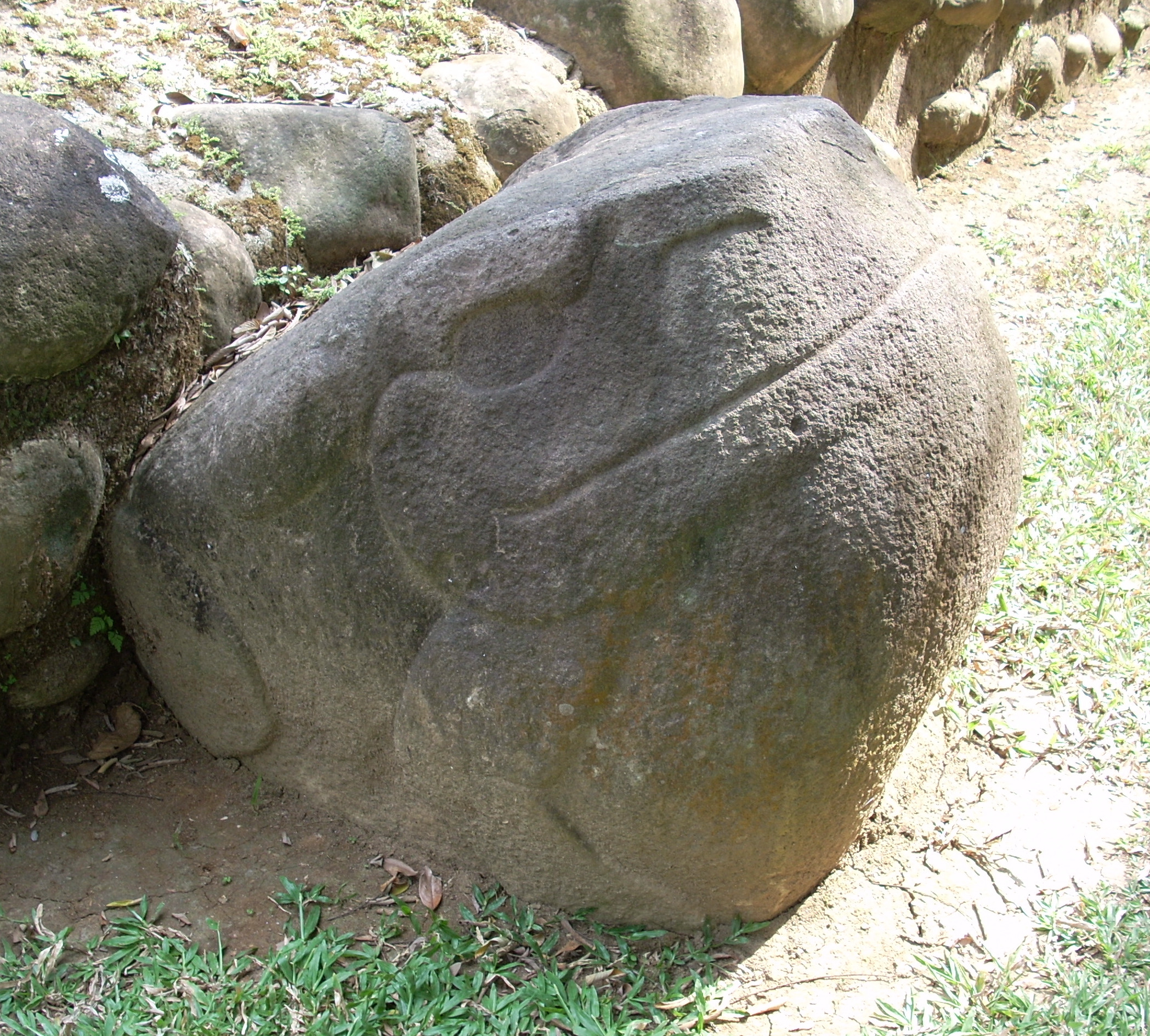 Monument 68, a sculpture of a toad at Takalik Abaj.